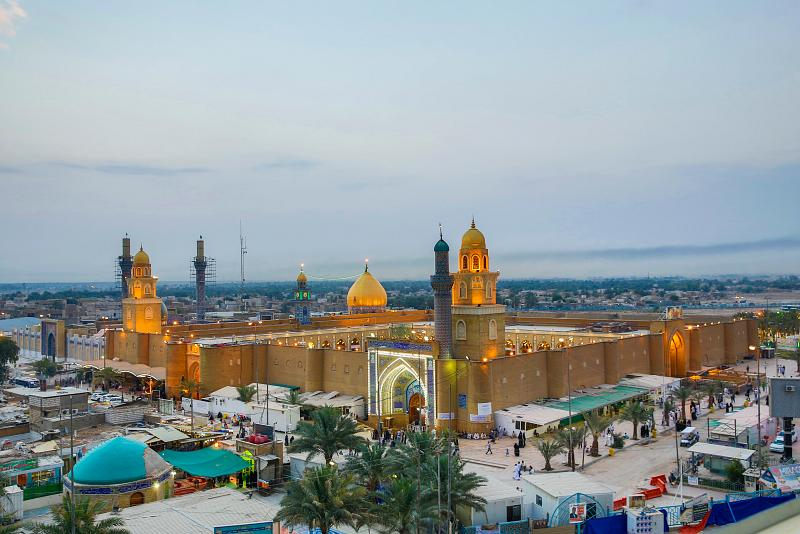 Al Kufa Mosque in Kufa City in Iraq, Najaf